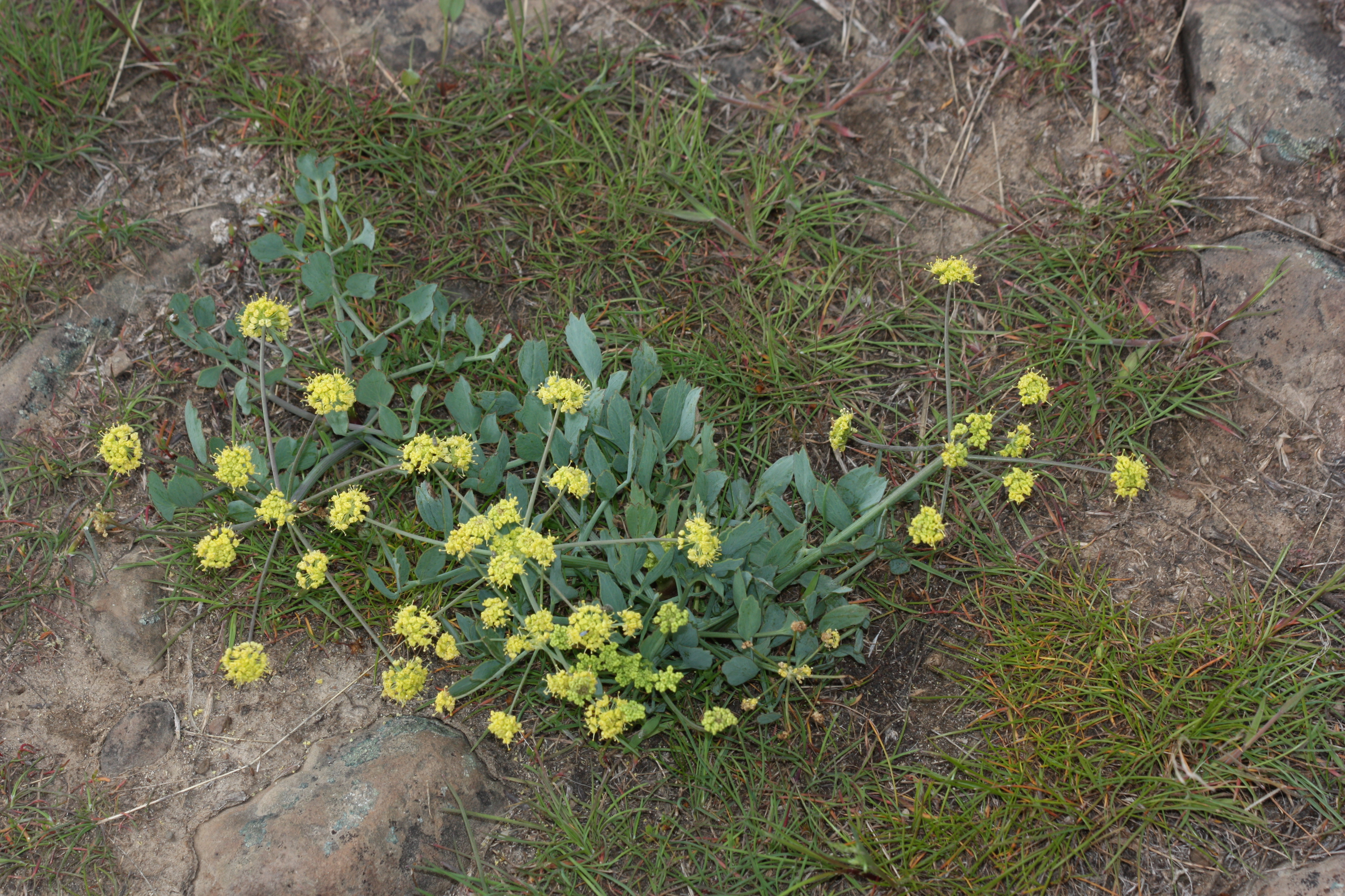 Barestem Biscuitroot, Indian-consumption-plant, Pestle Parsnip Viewpoint location: Snow Mountain Ranch, Cowiche Mountain Viewpoint elevation: 569 meter (1866 ft) Location source: Garmin GPSmap 60CSx Location Datum: WGS84